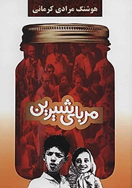 morabba-ye-shirin